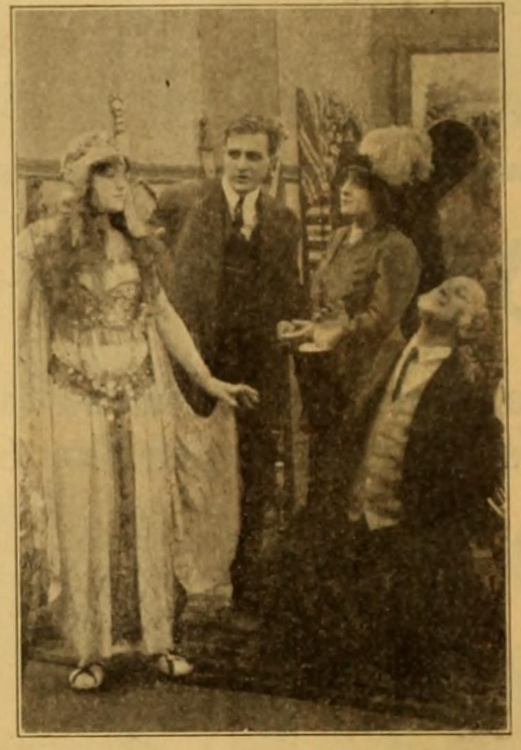 A film still from "The Mummy" by the Thanhouser Company.